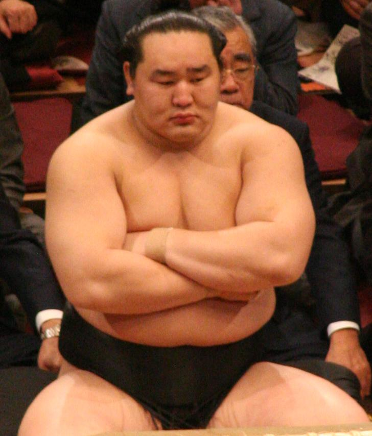 Sumo Wrestler Asashōryū at the January Tournament 2008